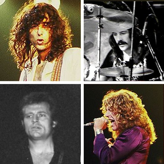 Clockwise, from top left: Jimmy Page, John Bonham, Robert Plant, and John Paul Jones of Led Zeppelin. A crop/montage derived from images with Creative Commons licenses on Wikimedia Commons.